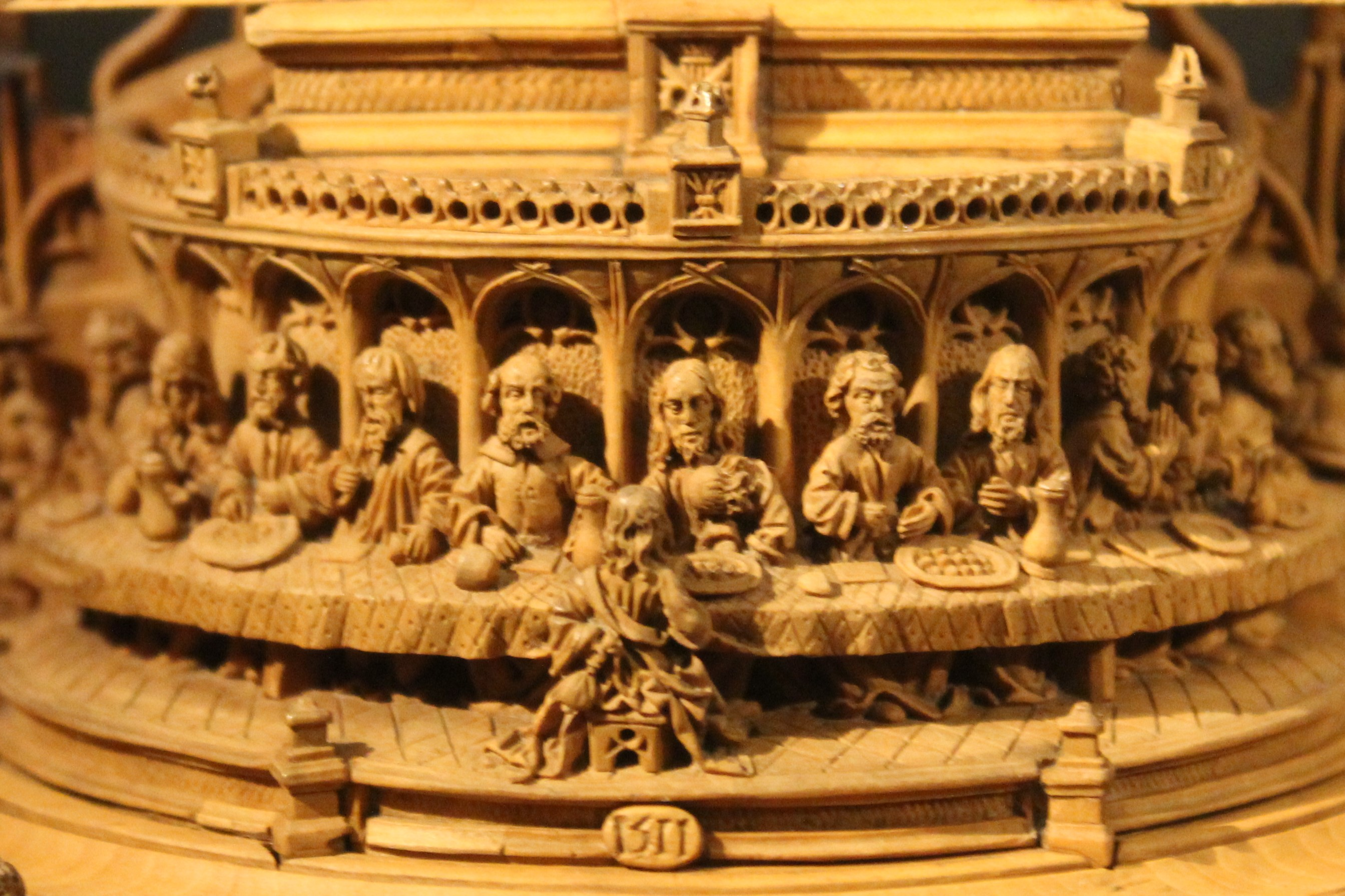 Portable altar, Boxwood, circa 1511, with thanks to British Museum for allowing photography